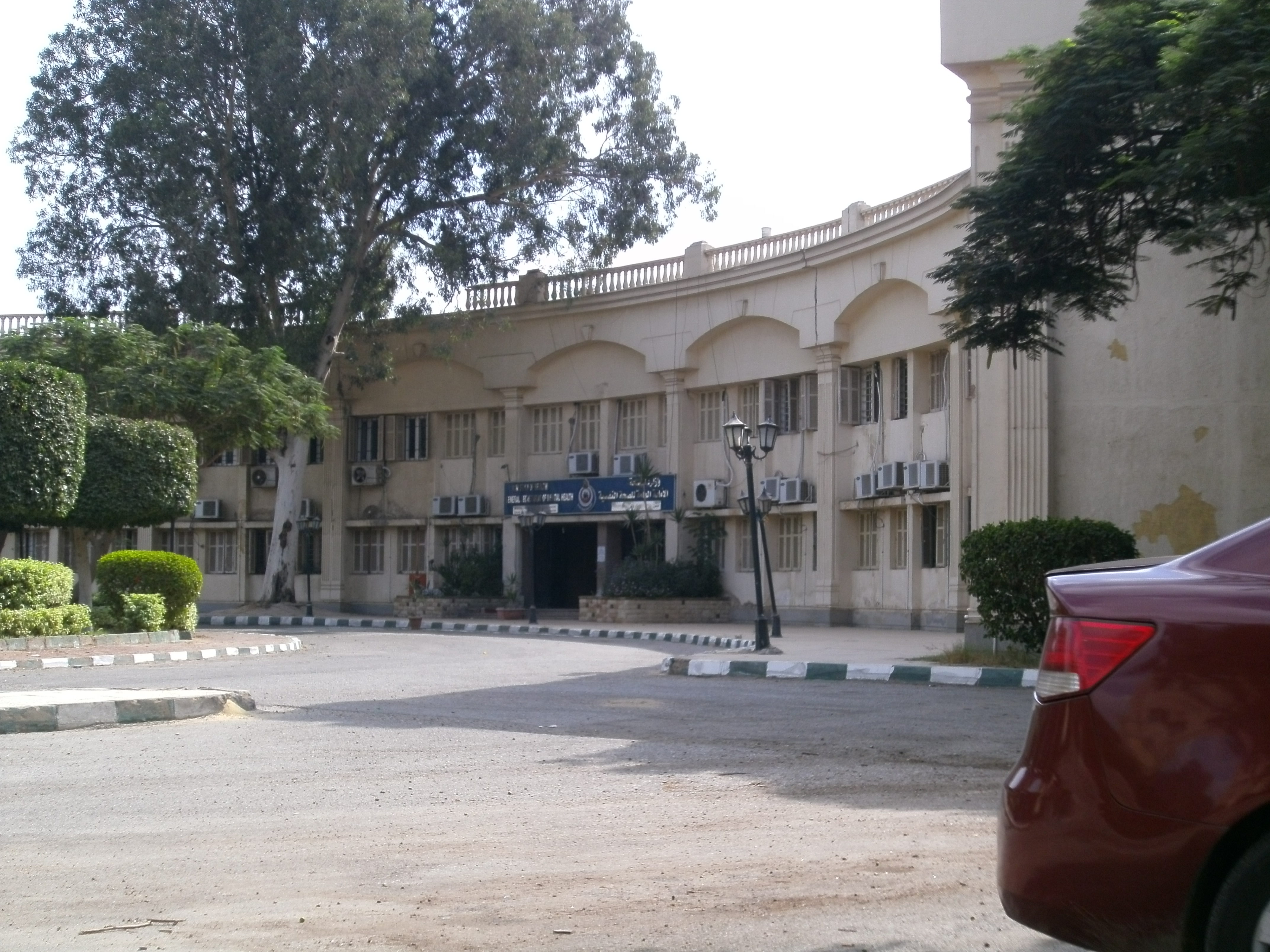 Abbasyia Mental health hospital